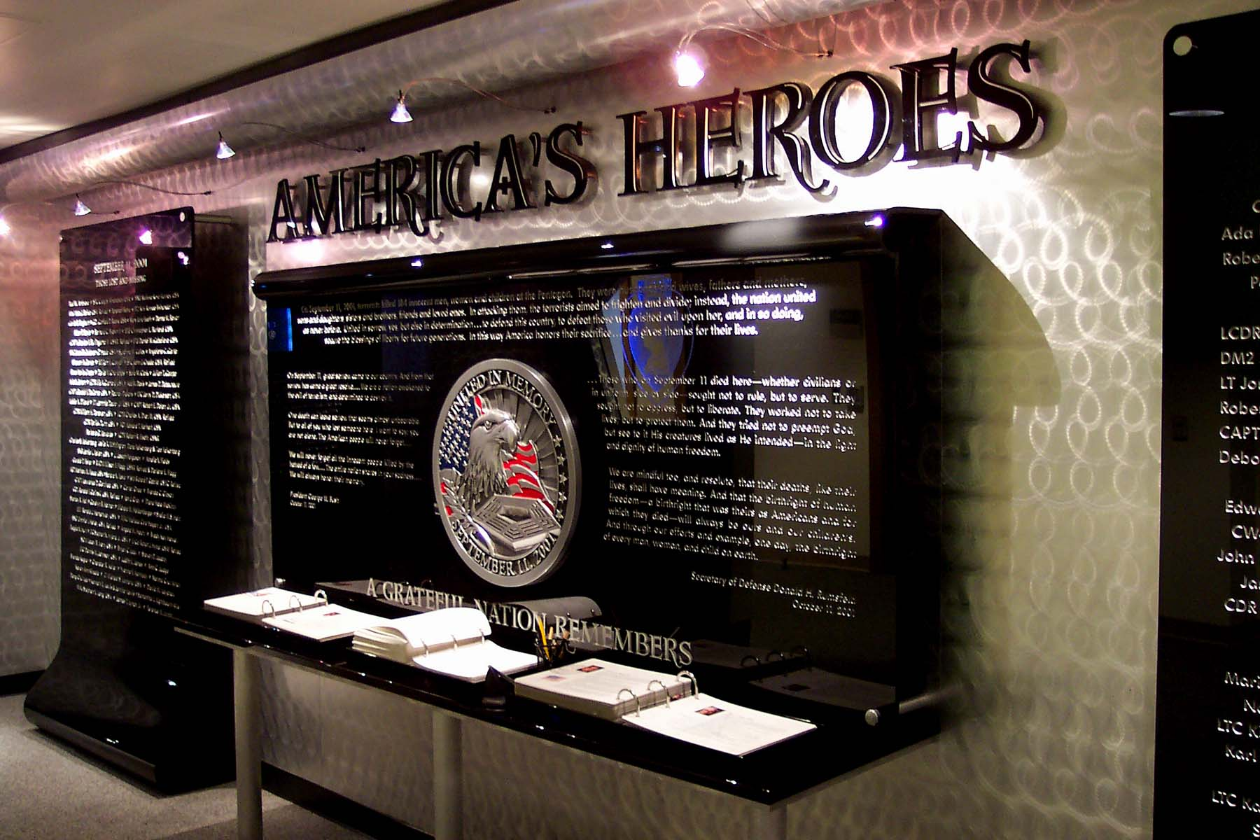 America's Heroes Memorial at the Pentagon. [4th Corridor, 1st Floor, E-Ring Dedicated Spring 2002]